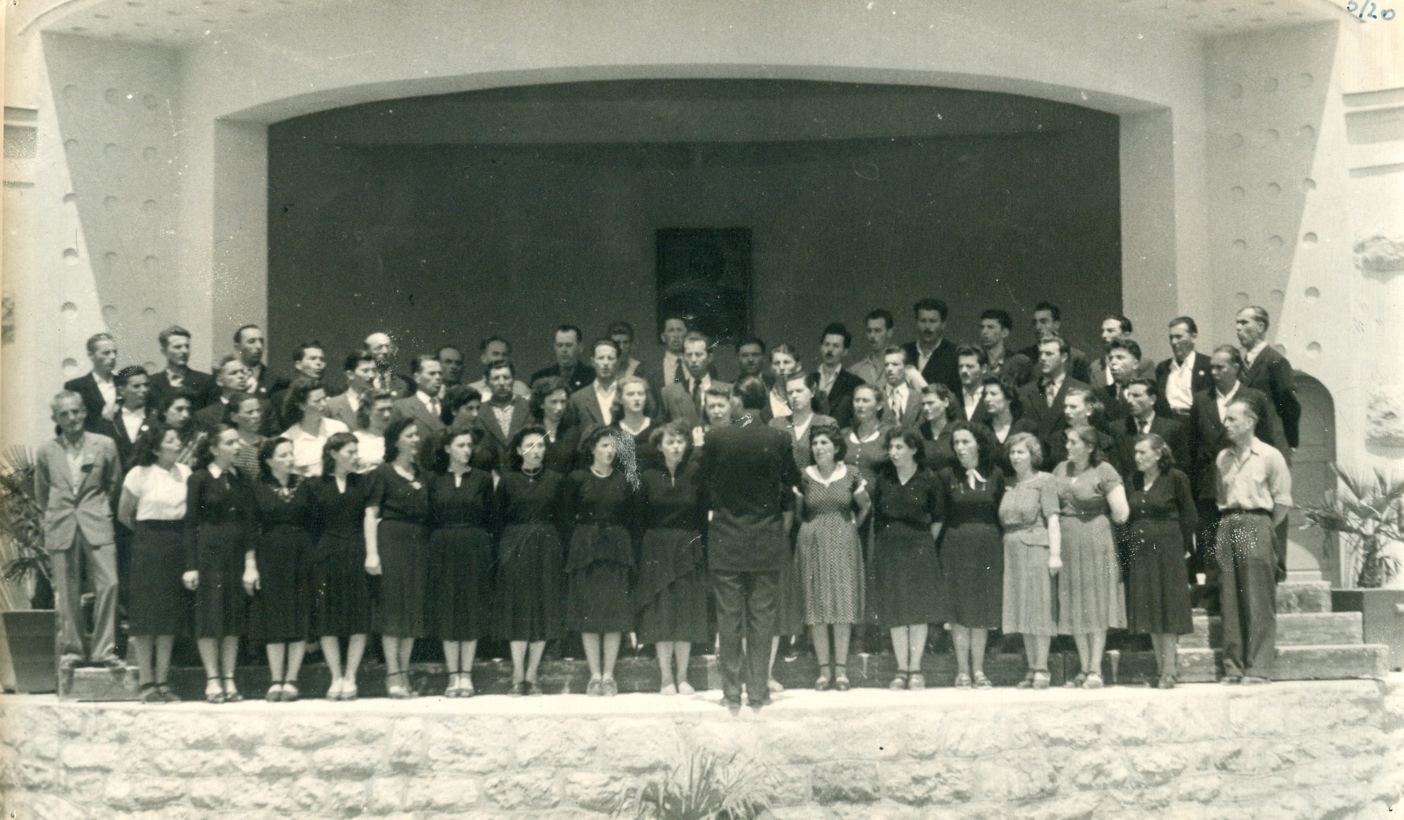 Festival “Days of Mokranjac” in Negotin in 1967. Srpski (latinica): Festival "Mokranjčevi dani" u Negotinu 1967. godine, Horovi su nastupali na Letnjoj pozornici na stadionu